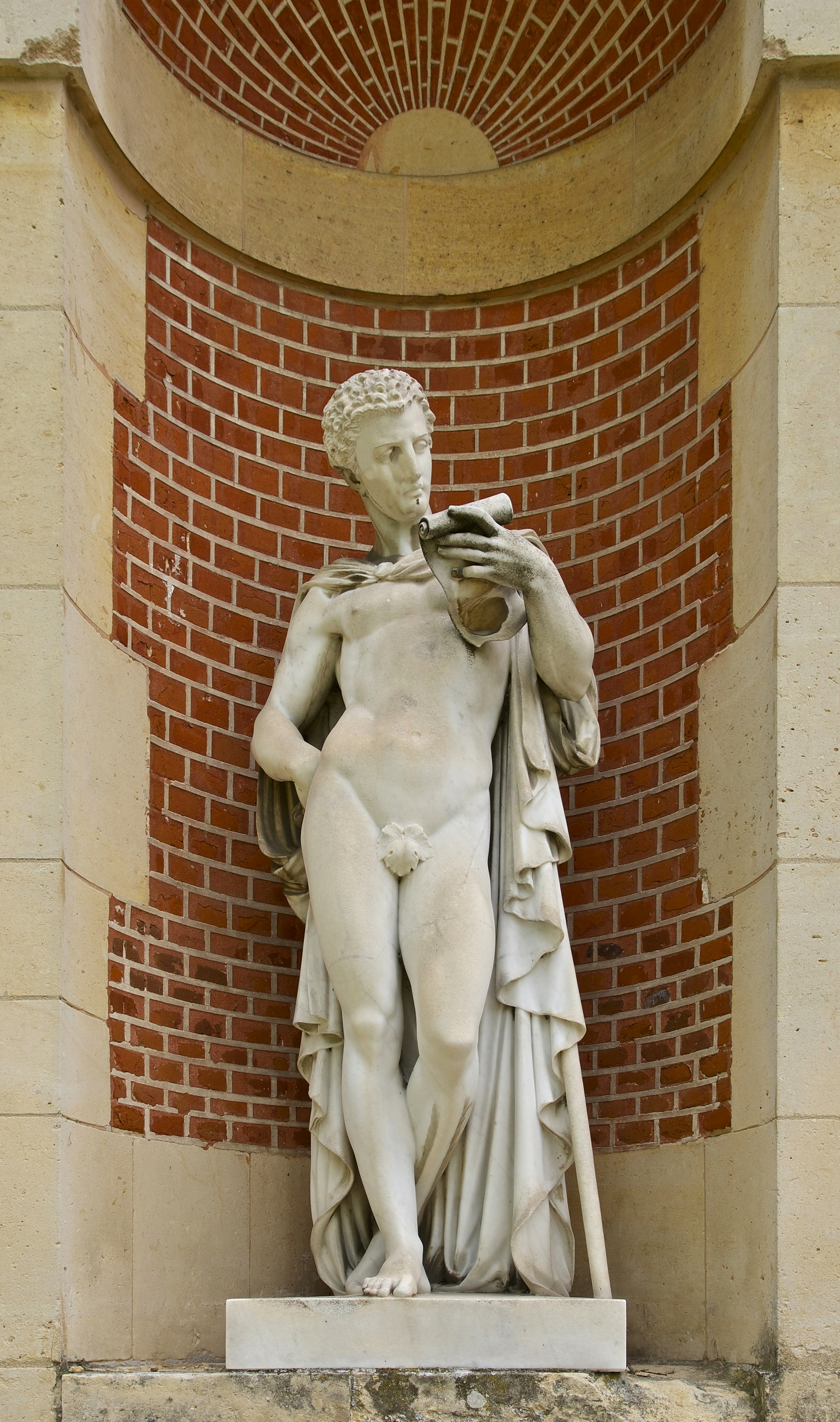 Marble statue by Charles-Auguste Lebourg (french sculptor, 1829-1906), in a niche of the wing of the "Galerie des Cerfs", Château de Fontainebleau, Seine-et-Marne, France.